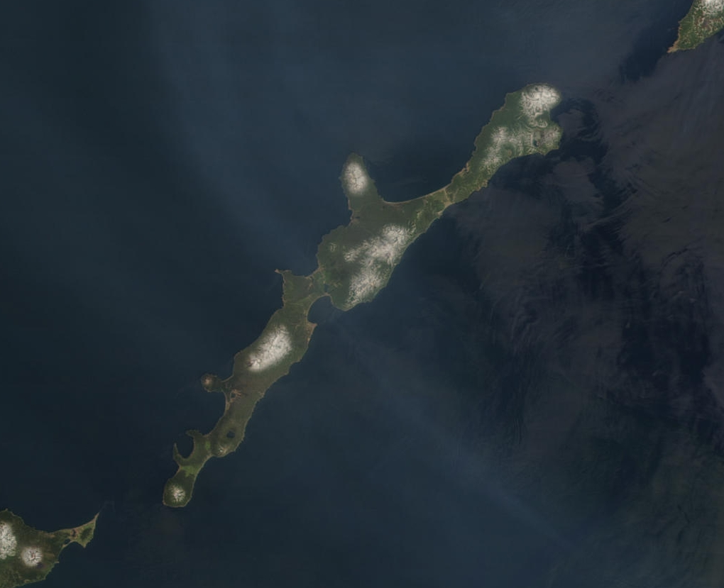 Iturup Island